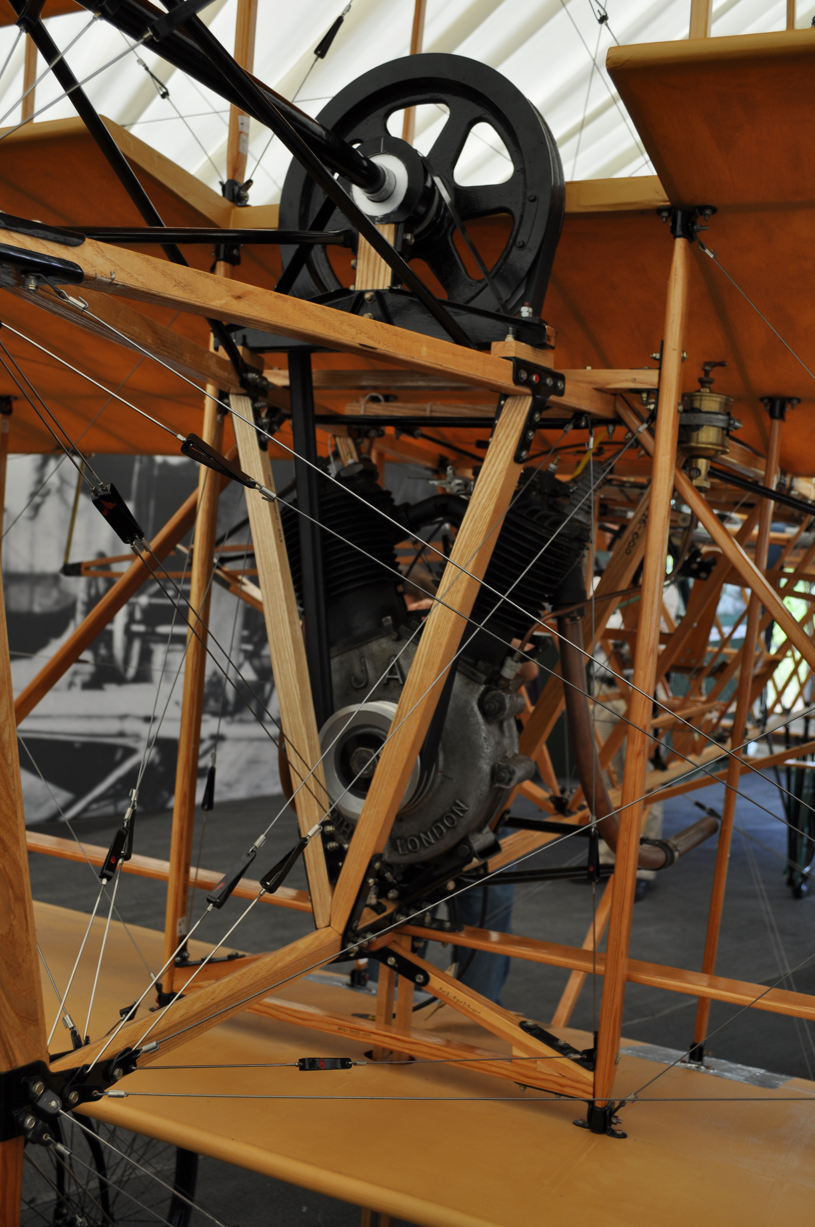 A replica JA Prestwich Industries J.A.P. 1909 9hp 2-cyl. motorcycle engine. The original powered the first all-British powered flight on 13 July 2009 at Walthamstow Marshes in London.